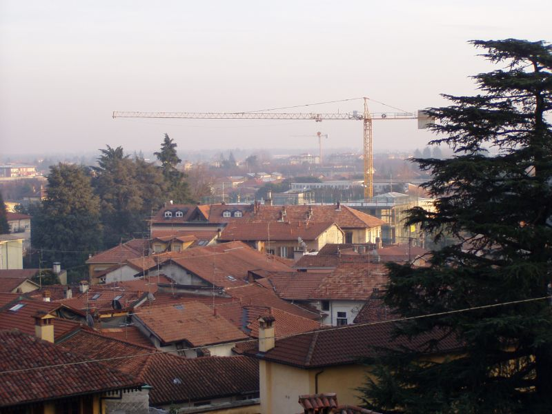 View of Cassano Magnago (VA) (ITA)